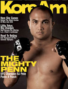 Magazine cover of KoreAm from July 2008 issue featuring BJ Penn.